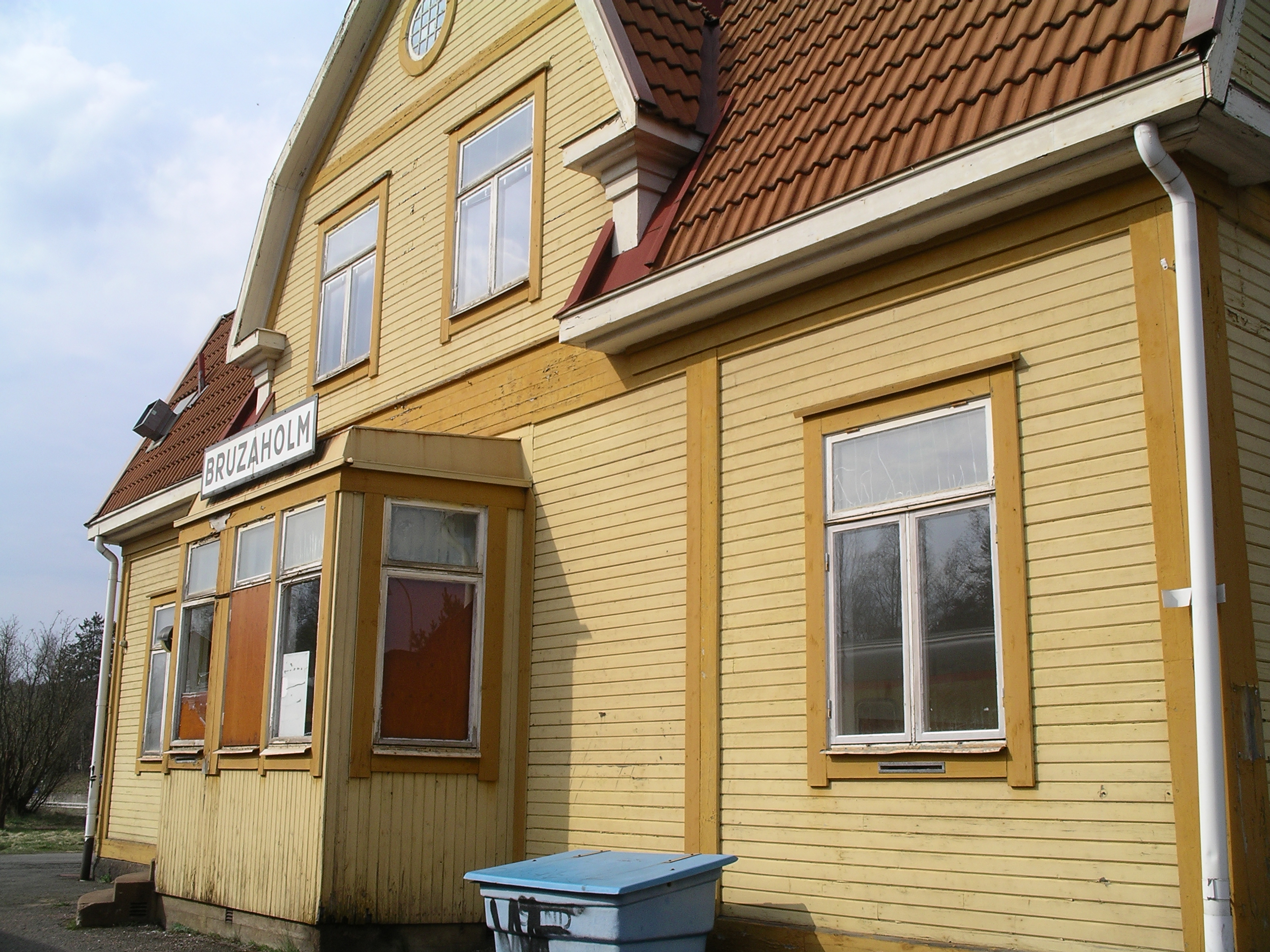 Railway station Bruzaholm in Sweden